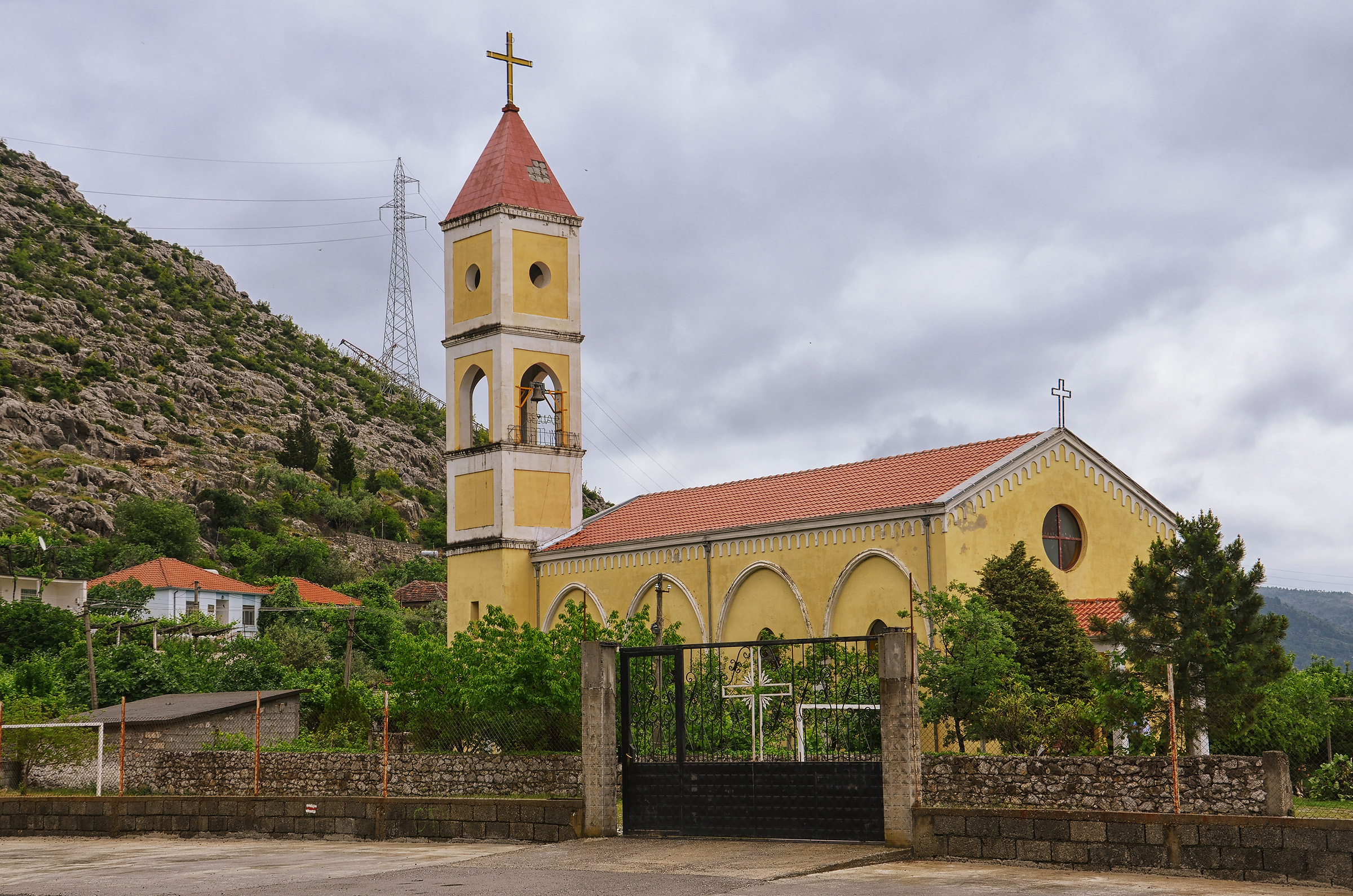 The St Mary Church (Kisha e Shën Mërisë) in Vau i Dejës. Before 1967 it was considered as one of the most valuable churches from an architectural and artistic perspective, and was even under state protection during the Communist rule, but then during the Atheist campaign in 1967 the church was exploded. The current building is a replica of it.